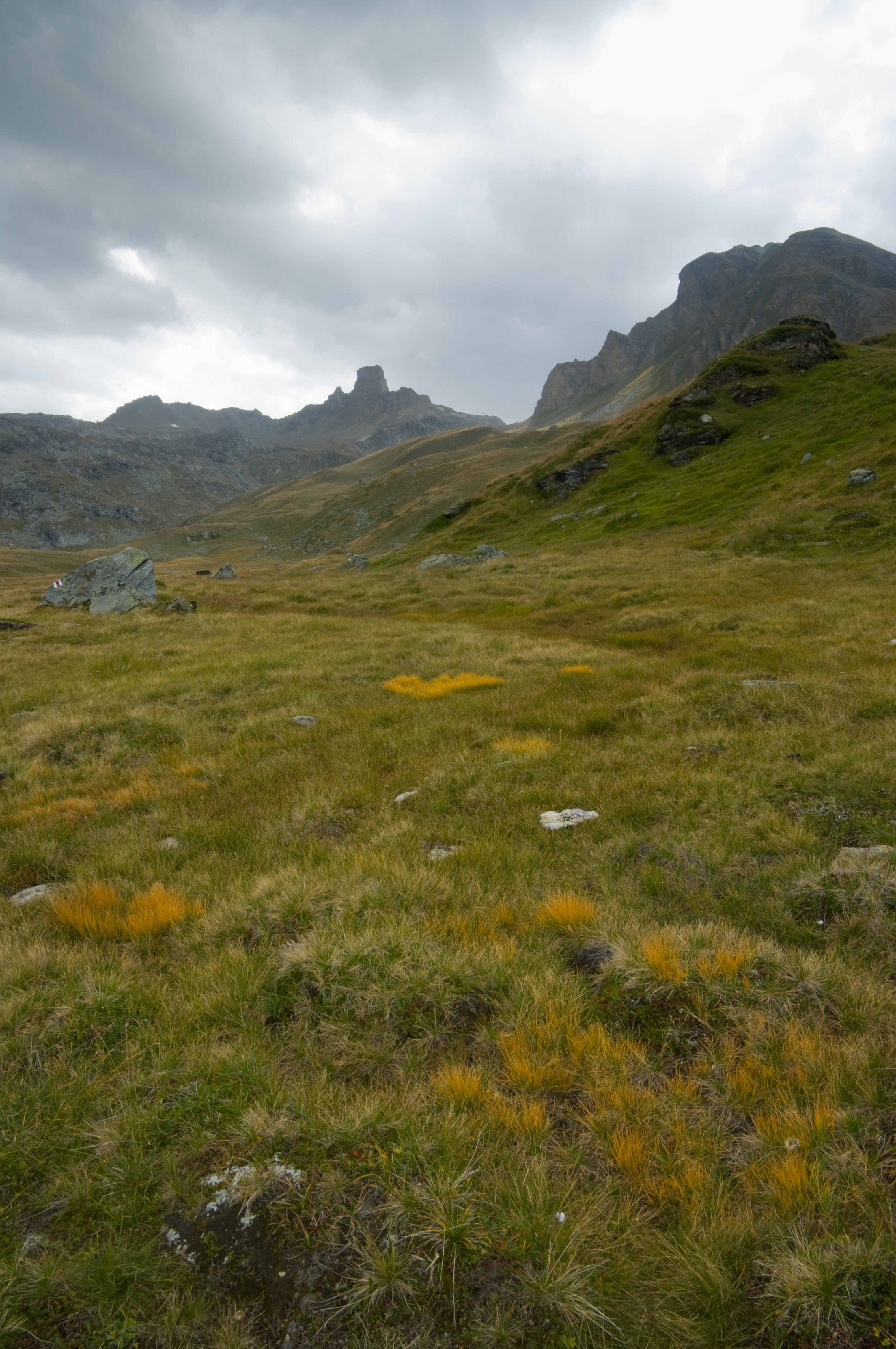 Vallon de Réchy, La Maya in the background